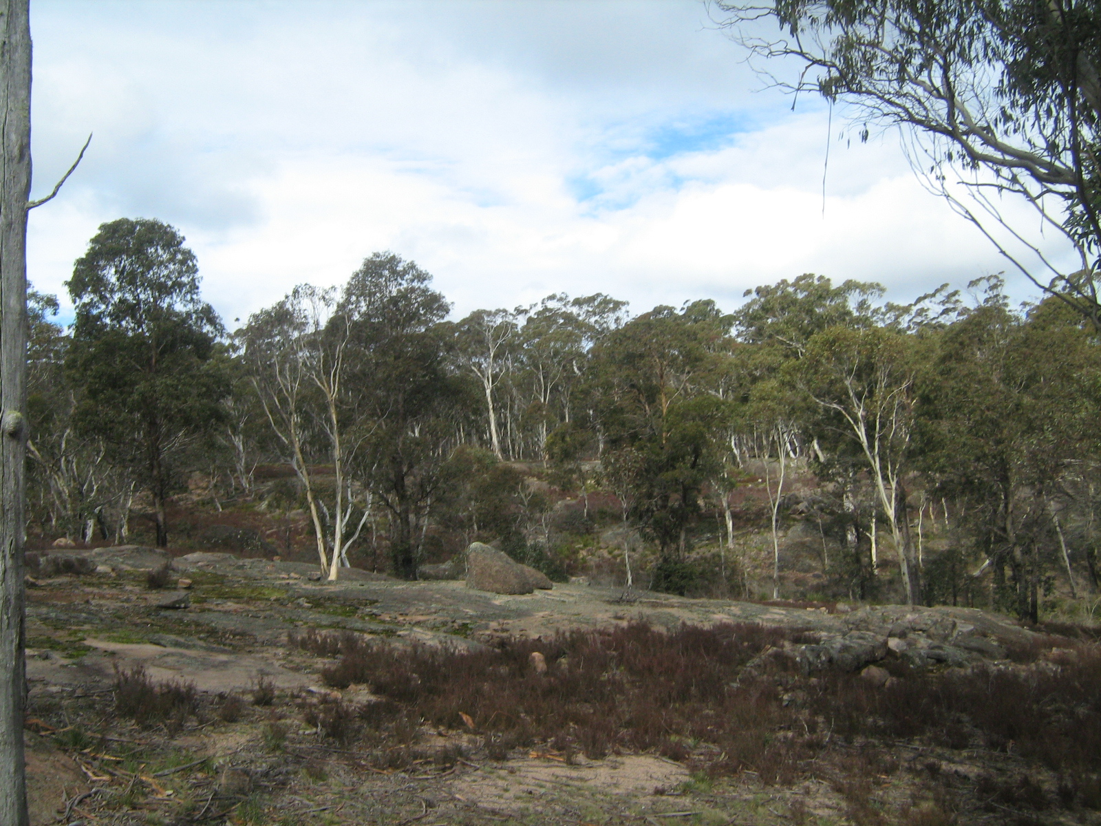 Forest in Kanangra-Boyd National Park near the Boyd River Camping Area, NSW, Australia.